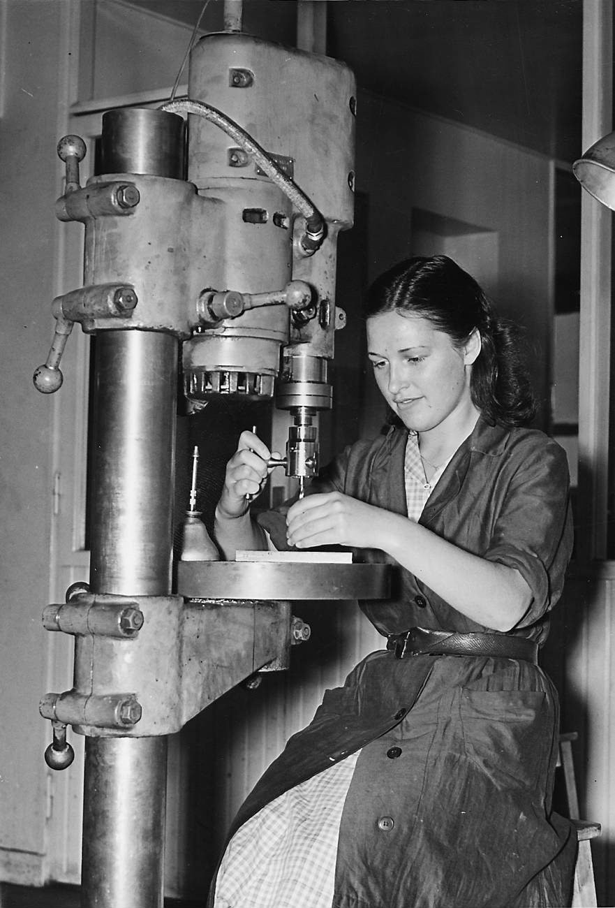 A women taking part of a course in Precision Engineering in Sweden in 1942.